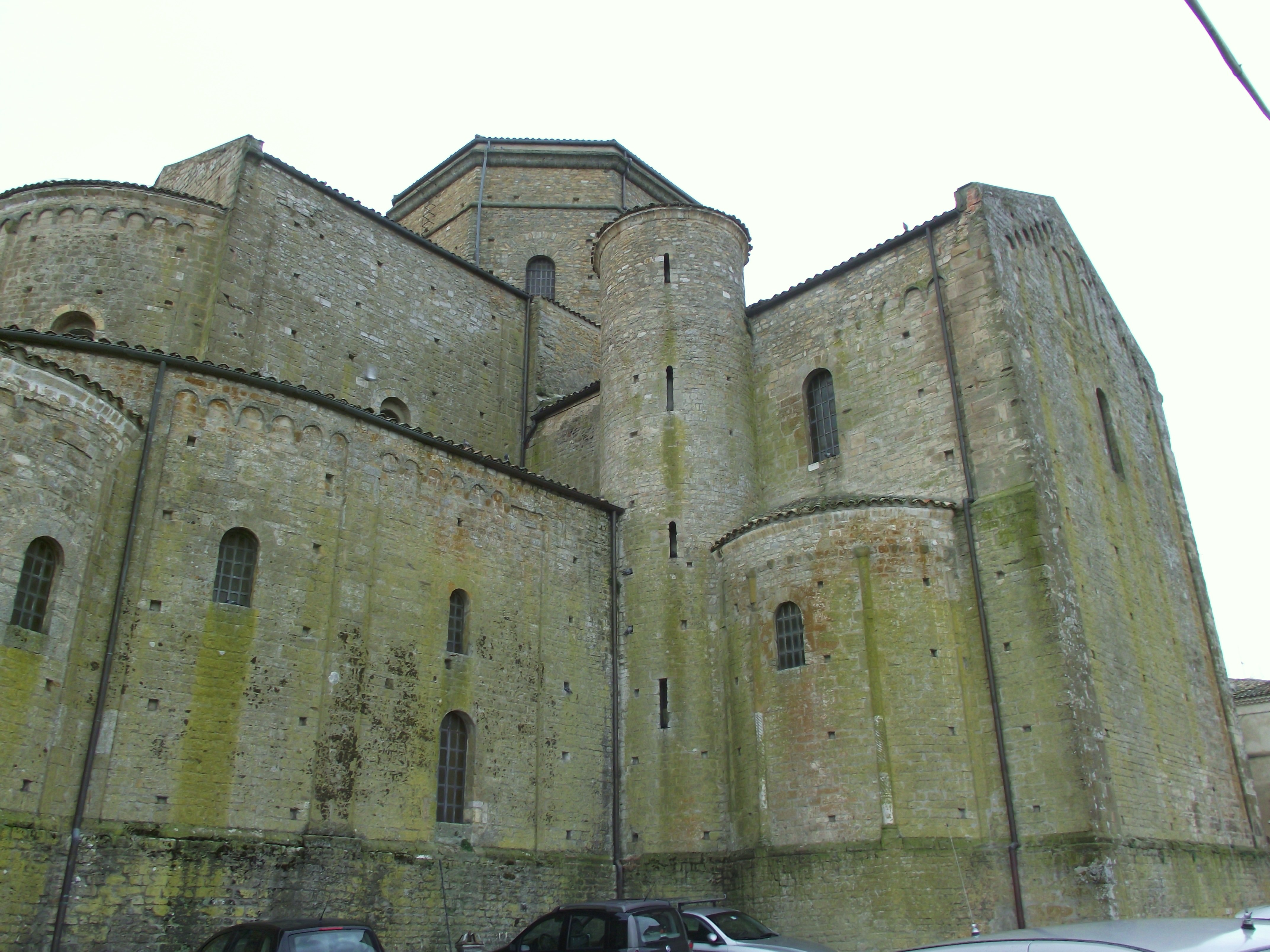 abside